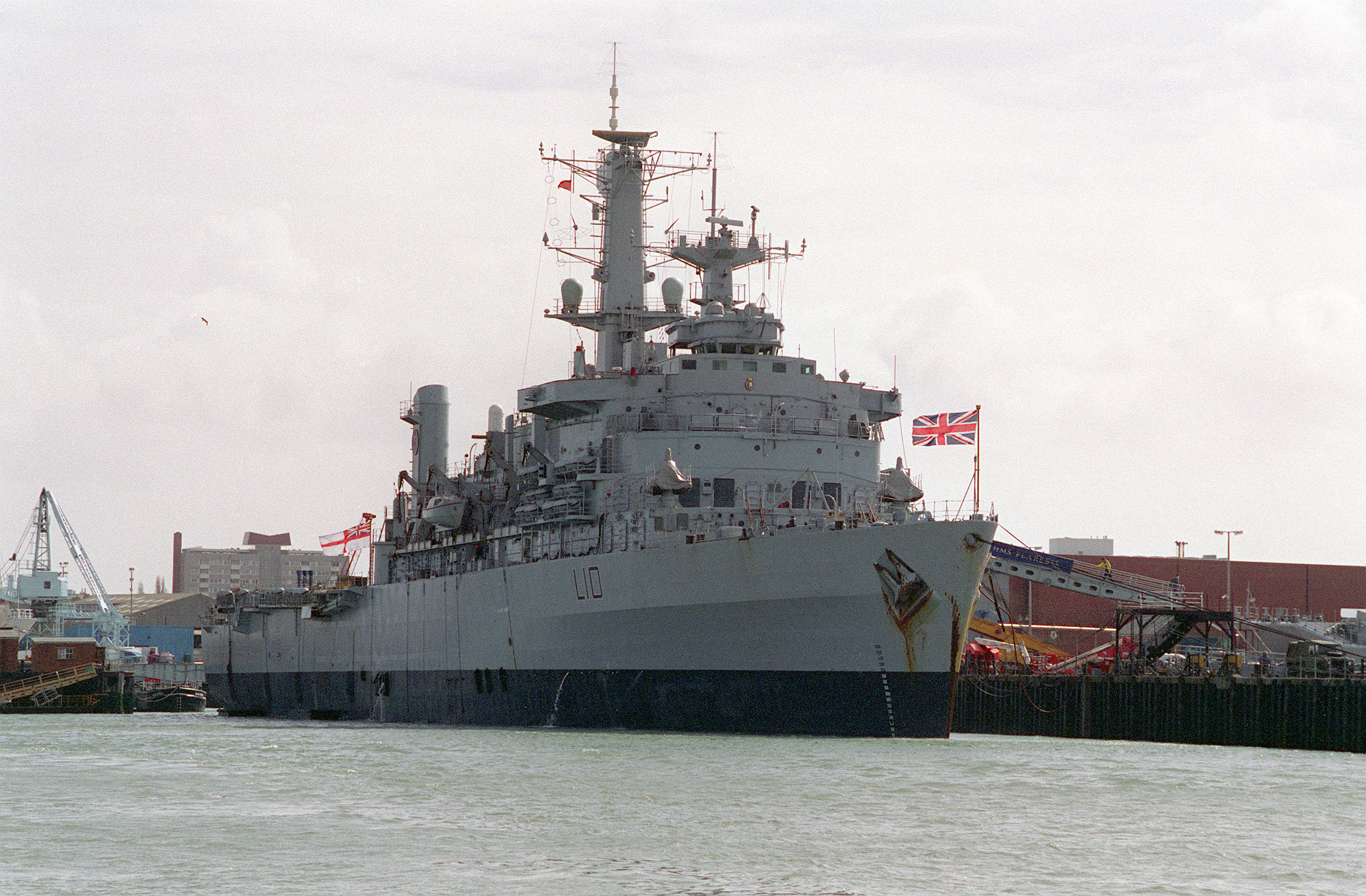 The Royal Navy assault landing ship HMS Fearless (L10) tied up at the jetty in the east basin of the Portsmouth Naval Base, Hampshire (UK), on 31 March 1994.